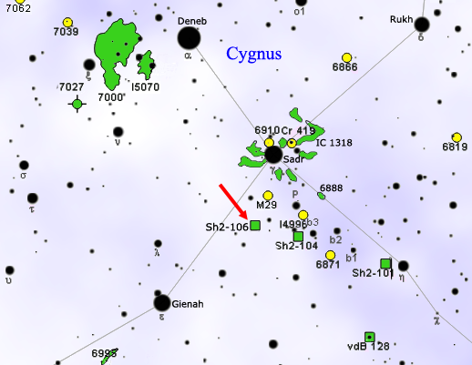 Map of Sh2-106.